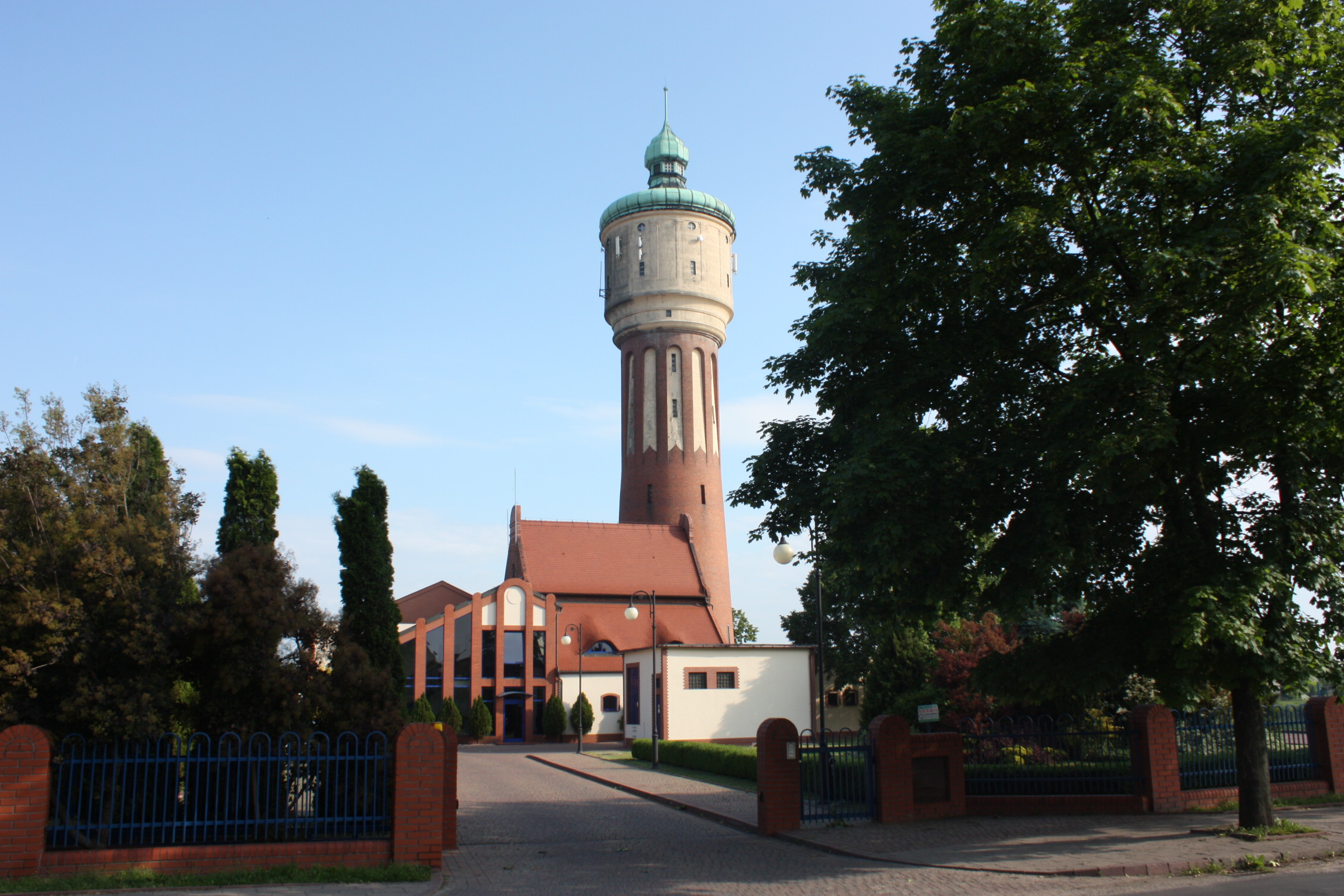 Water tower from Szosa WItkowska street